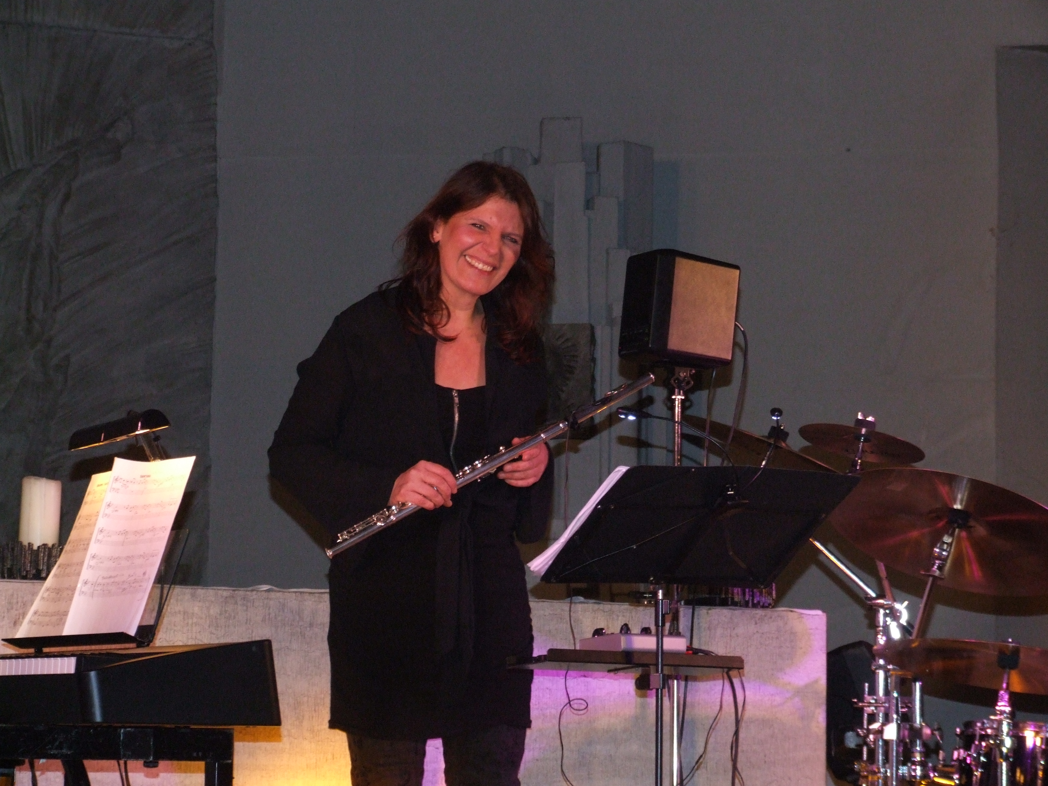 Petra Erdtmann (traverse flute) in the band Thirty Fingers in February 2013 in St. Konrad, Speyer